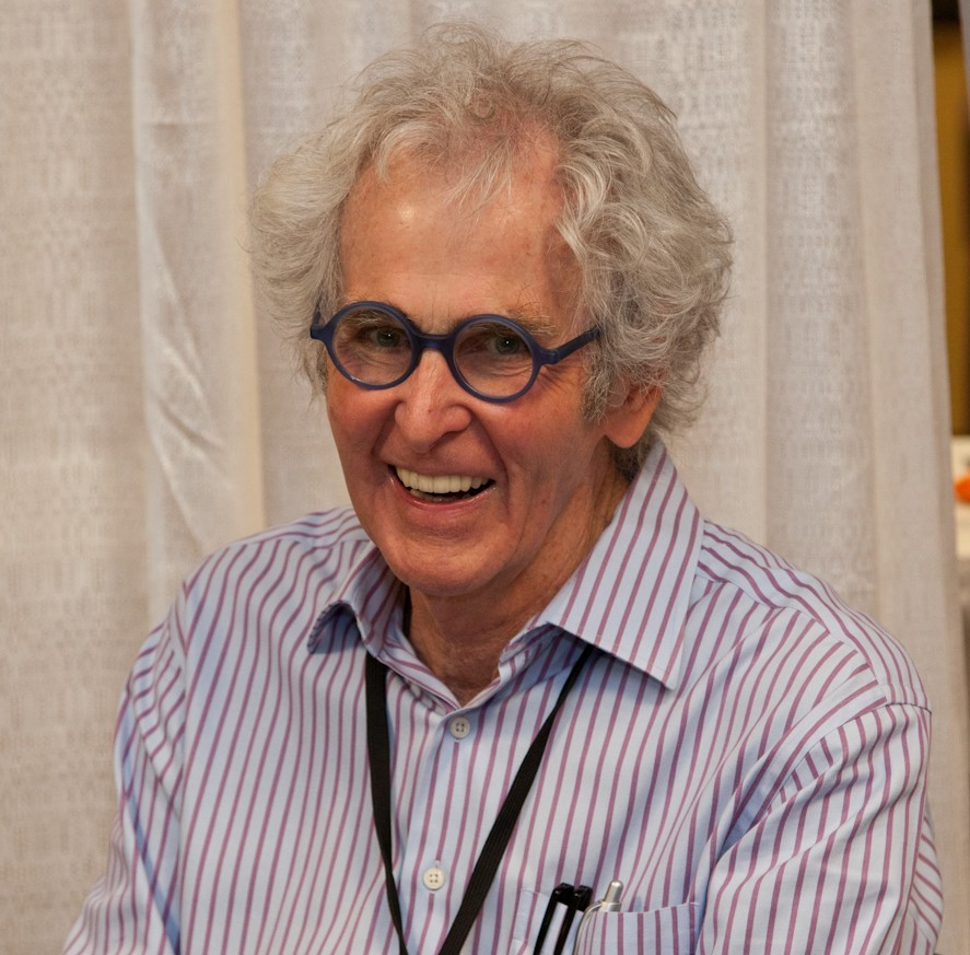 Jerry Uelsmann, March 2011.